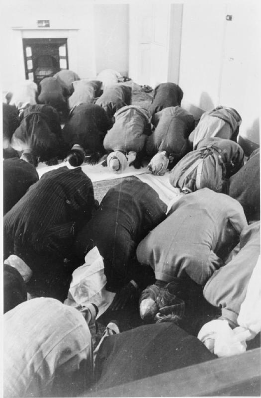 Muslims in Britain- Eid Ul Fitr Celebrations, 1941 Amongst the congregation bowing in prayer at the East London Mosque are Muslims from India, Afghanistan, Iran, Iraq, Egypt, Sudan, Palestine, Transjordan, Syria, Arabia, Aden and Somaliland, and they include soldiers and merchant seamen.